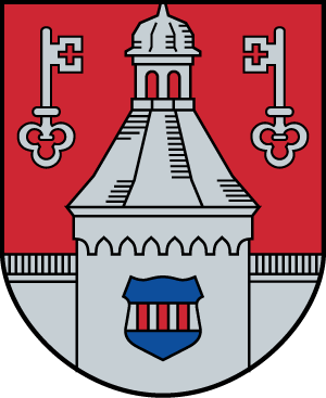 Coat of arms of Jaunpils novads, Latvia